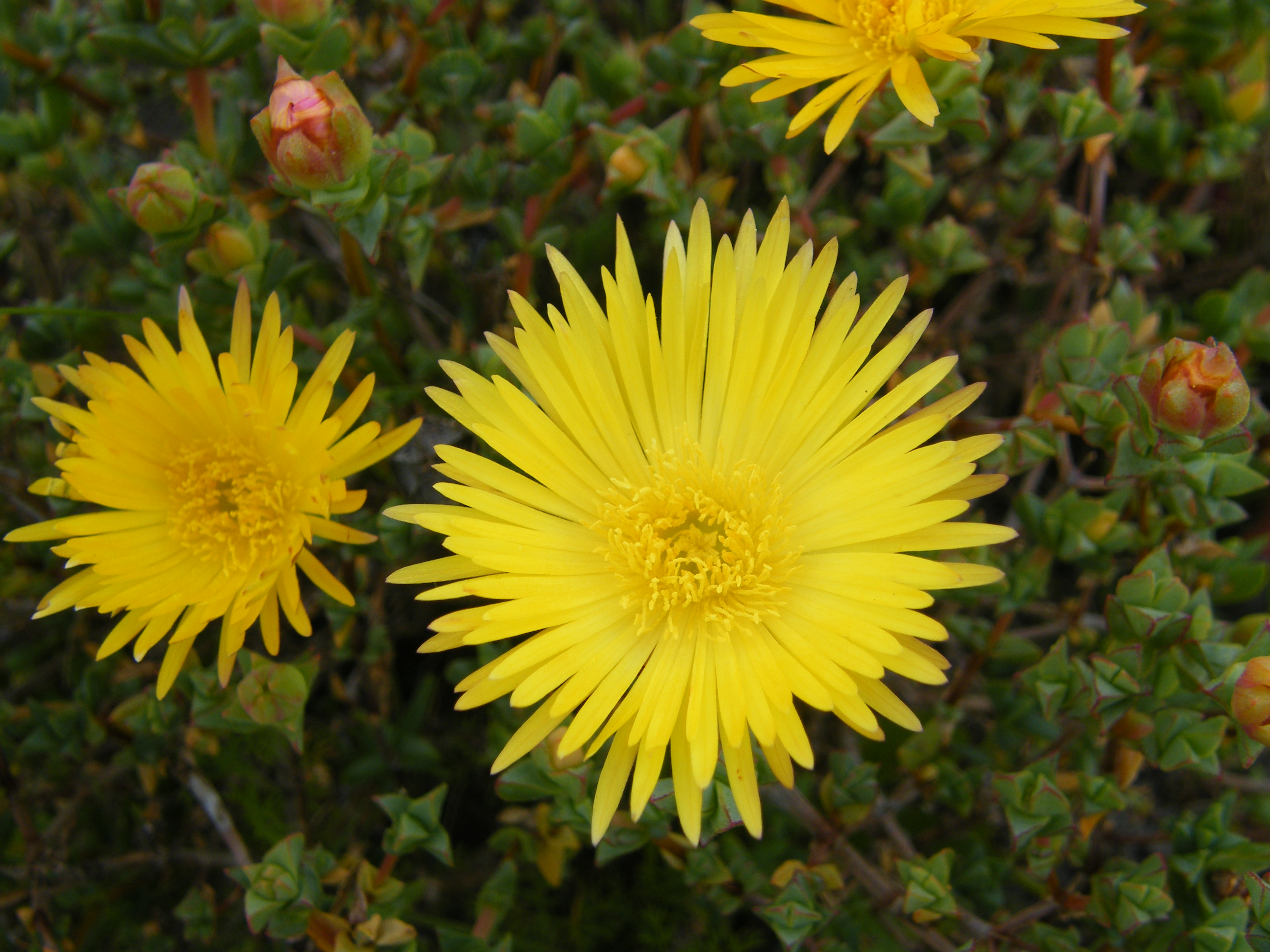 Lampranthus